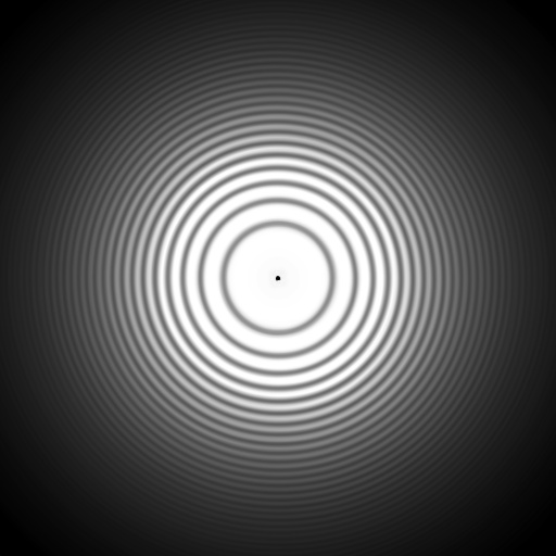 Contrast transfer function from a micrograph collected on an FEI Tecnai F20 G2 electron microscope. Image obtained by taking the power spectra of an electron micrograph of a biological sample in uranyl acetate stain and apply some rotational blurring using GIMP